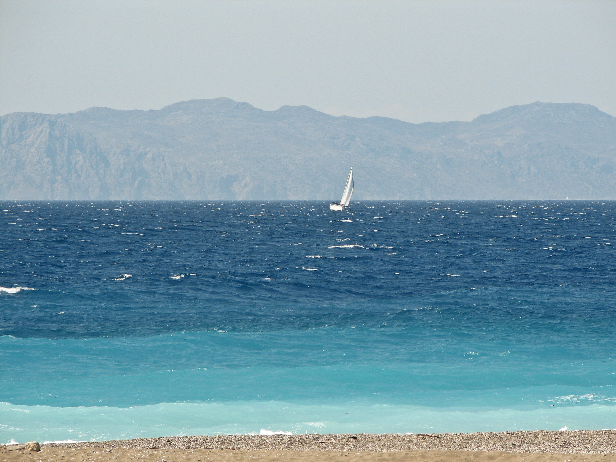 Ixia beach, Rhodes, Greece. At the horizon, the Turkish coast is visible.